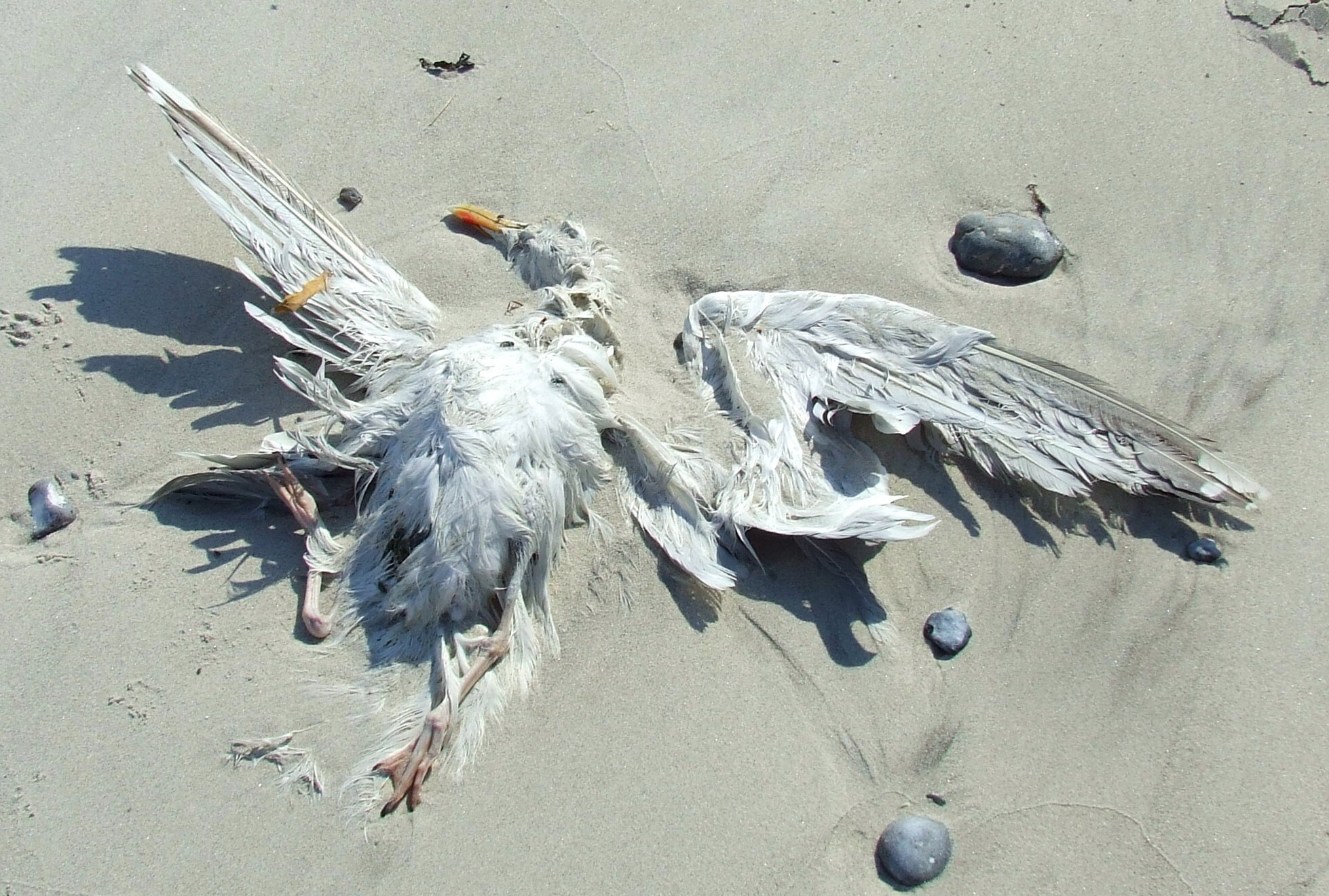 Dead Herring Gull (Larus argentatus) on the seashore of Düne, a small island to the east of Heligoland. Studies on carcasses of recent gulls showed that birds only can preserved fossilised completely on land or on shore.